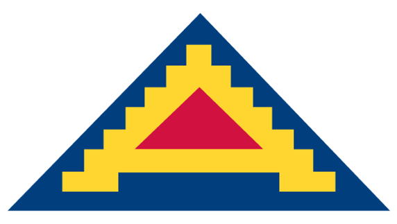 Official logo for the 7th Army Joint Multinational Training Command